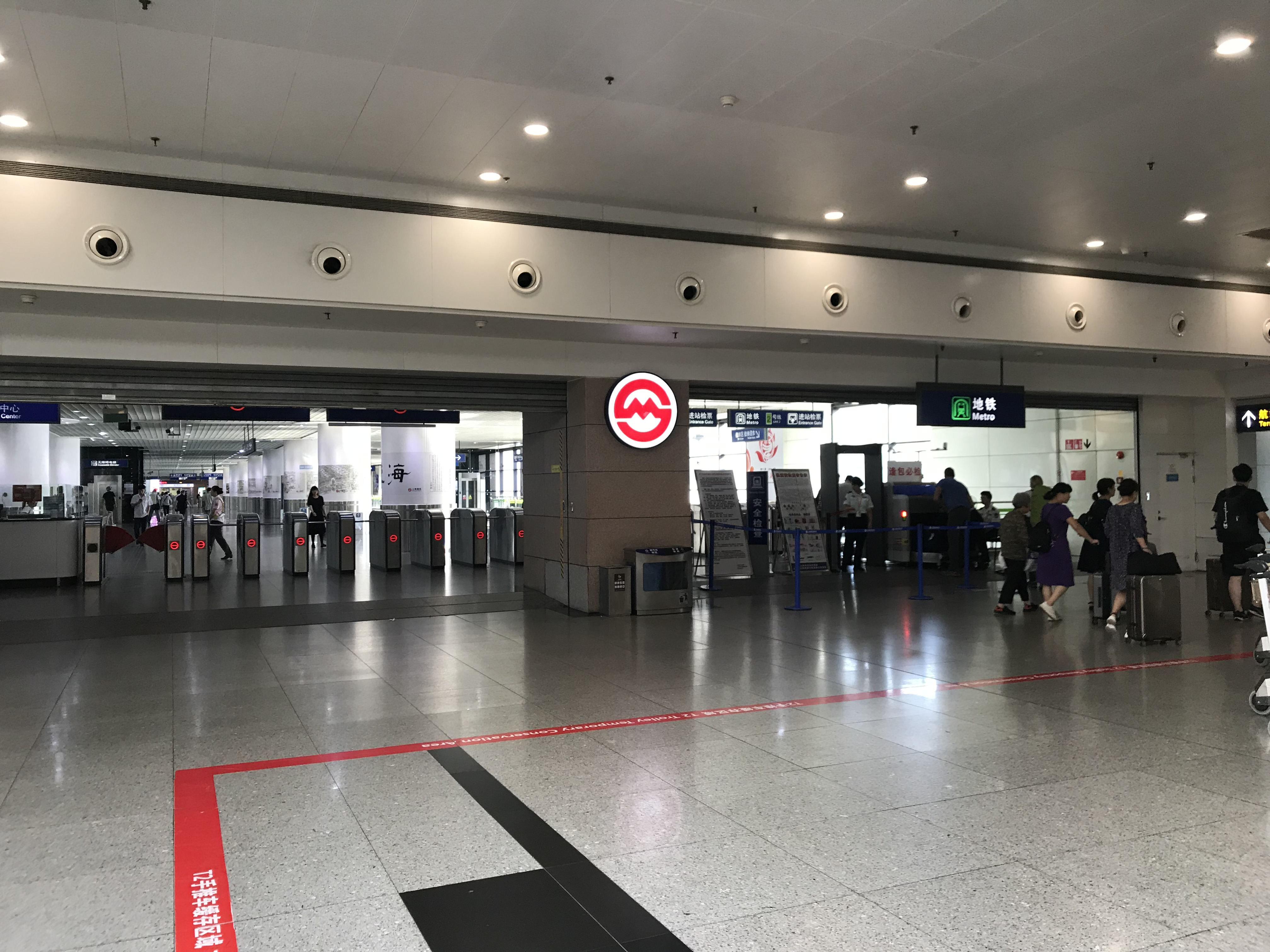 201908 Eastern Entrance of Metro PVG Station